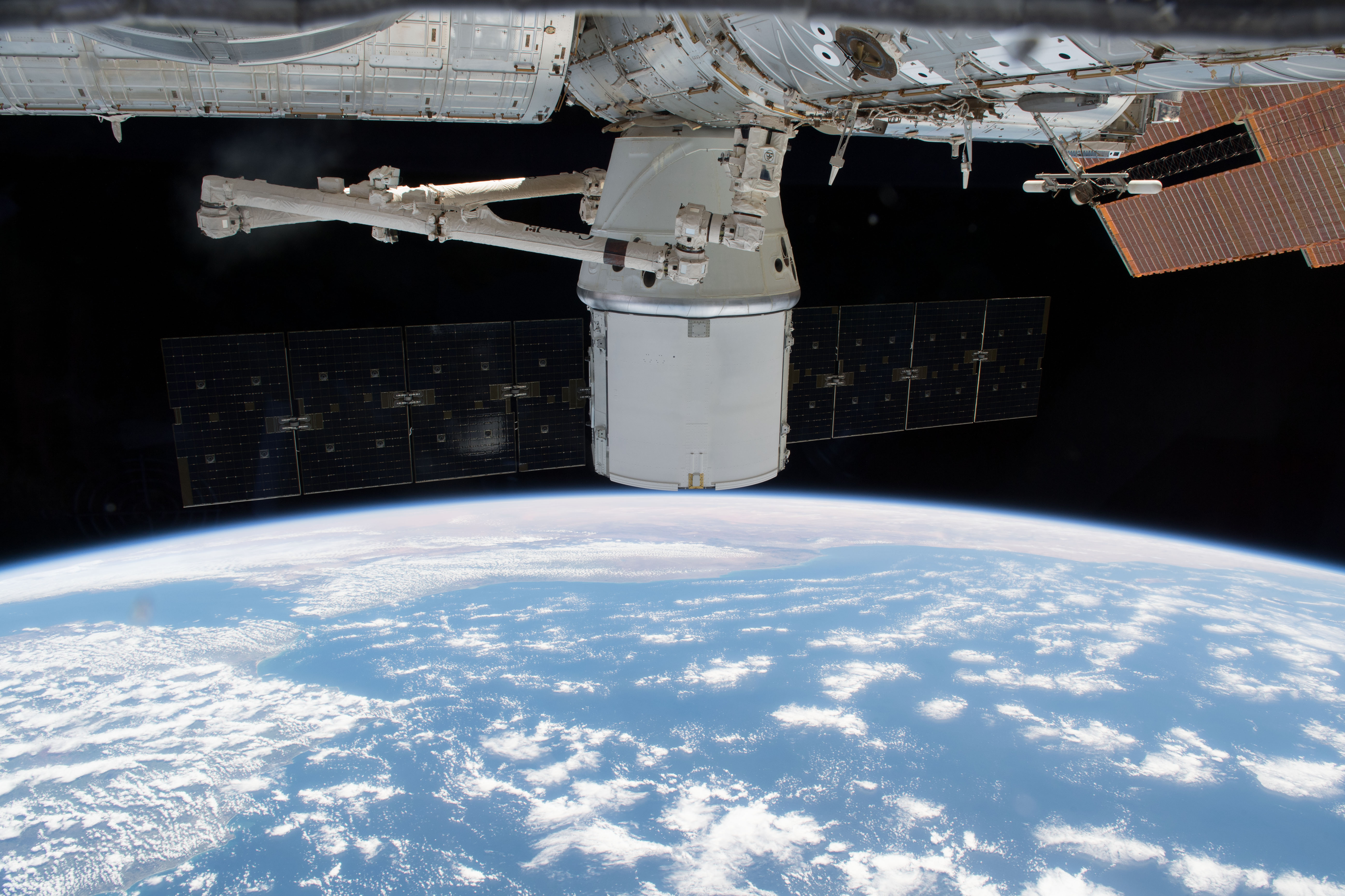 The SpaceX Dragon resupply ship was gripped by the Canadarm2 robotic arm on April 27, 2018 in preparation for its detachment from the Harmony module and its release back to Earth for splashdown and retrieval in the Pacific Ocean. The coasts of Spain and Portugal are seen as the International Space Station orbited over the Atlantic Ocean.